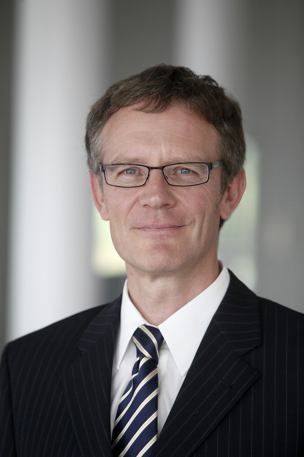 Picture of Prof. Dr. Dirk Hoefer